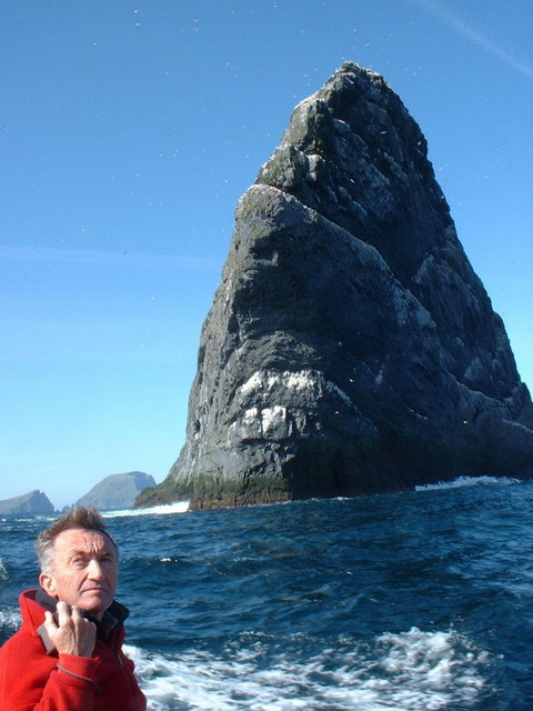 Stac Lee Peter watches the gannets over Boreray while we see Stac Lee close up and Hirta and Soay on the horizon.